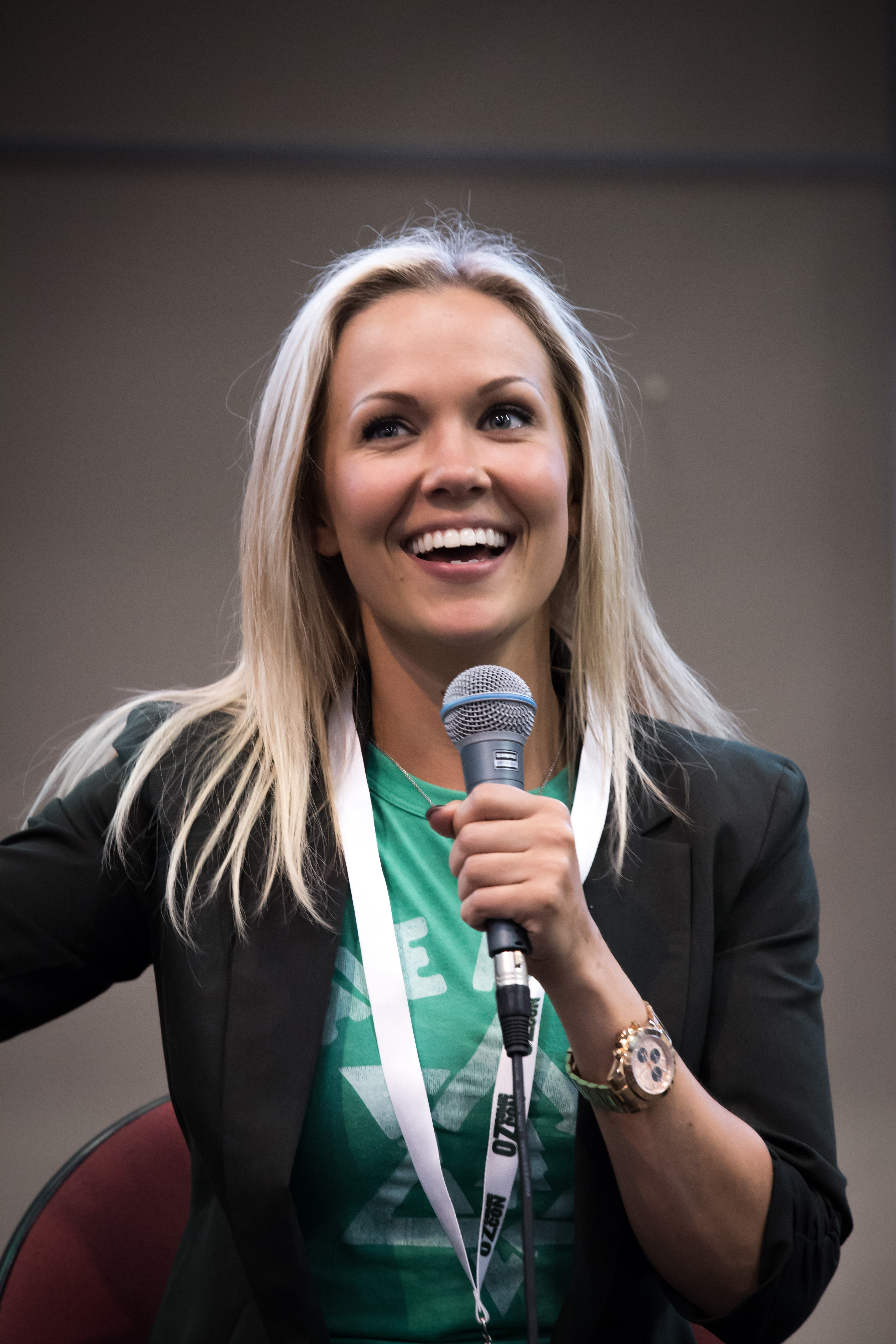 Emilie Ullerup at OzComicCon in Adelaide, Australia 2013